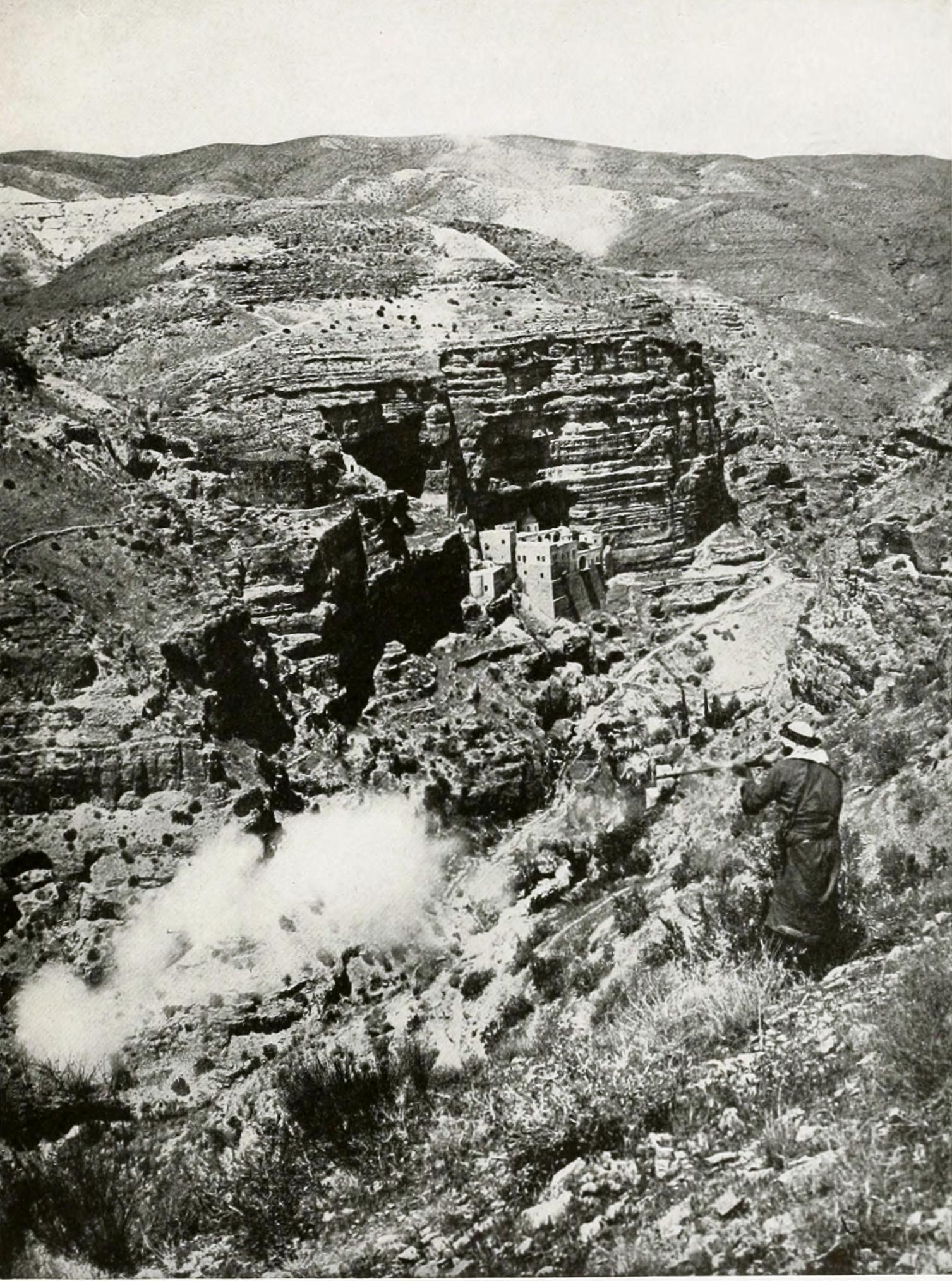 Monastery of St. George in the Wadi El-Kelt, Desert of Judea . 1909